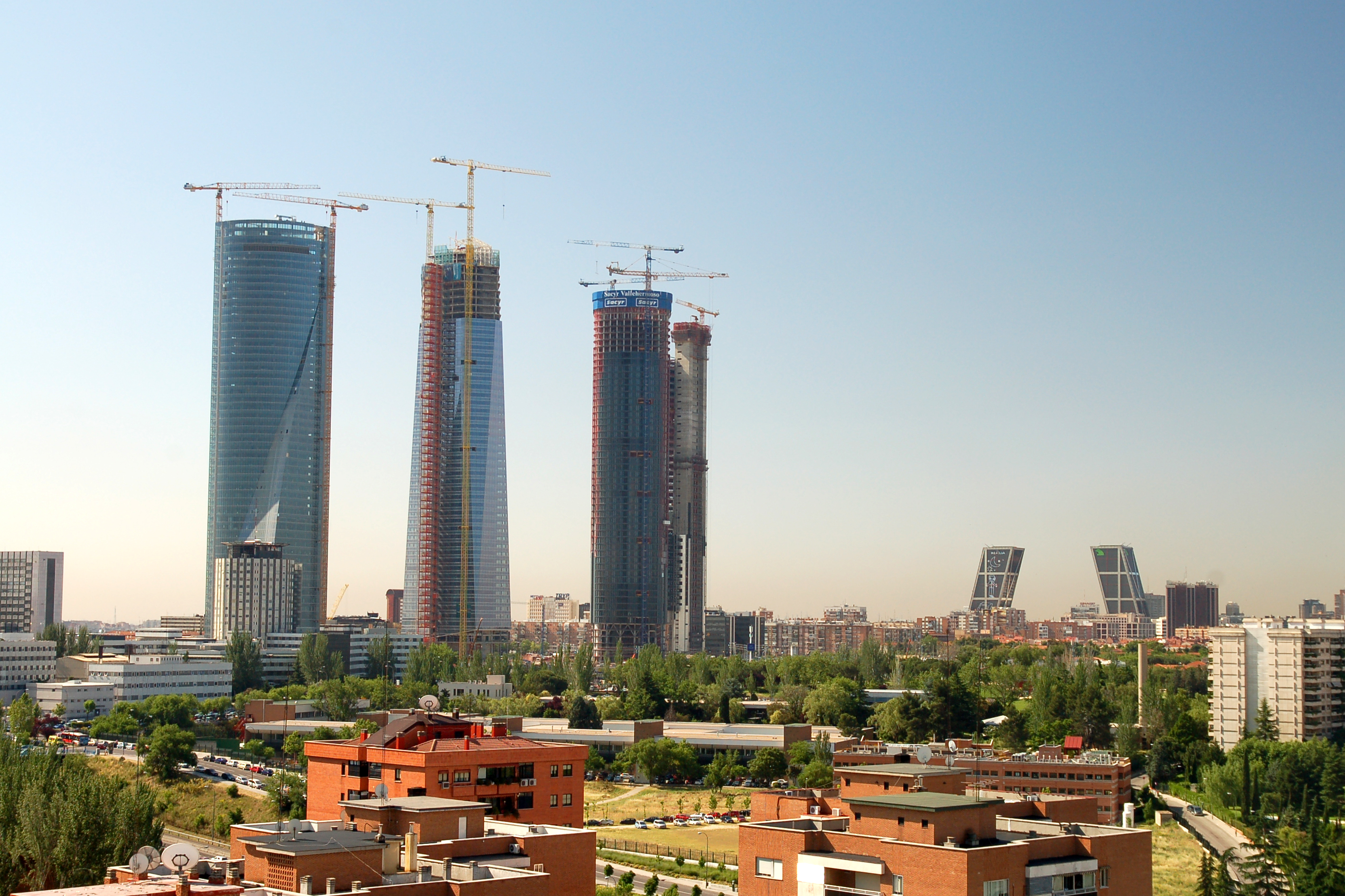 View of Cuatro Torres Business Area in Madrid (Spain) from the Ramón y Cajal Hospital. At the right, the two Puerta de Europa ("Gate of Europe") inclined buildings.